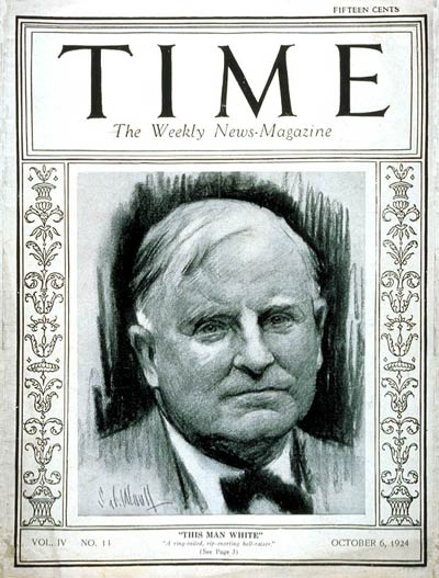 TIME Magazine Cover Featuring William Allen White (6 Oct 1924)